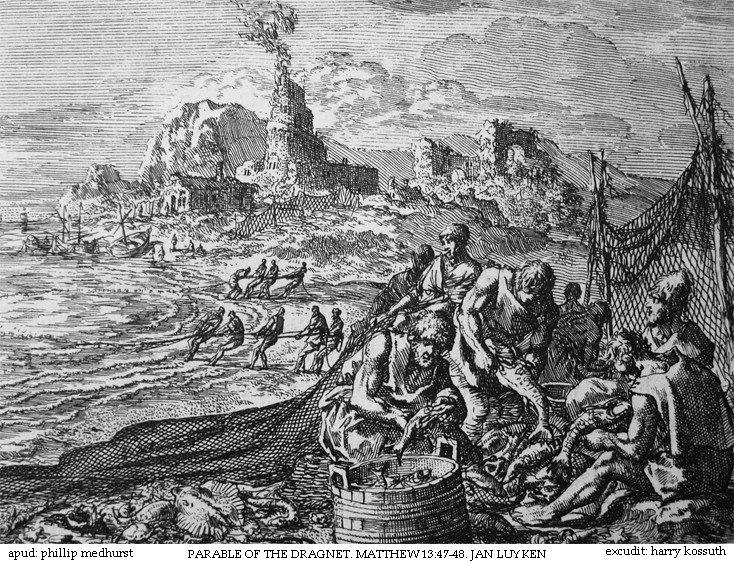 An etching by Jan Luyken illustrating Matthew 13:47-48 in the Bowyer Bible, Bolton, England.